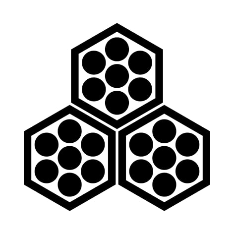 Rokugō family crest